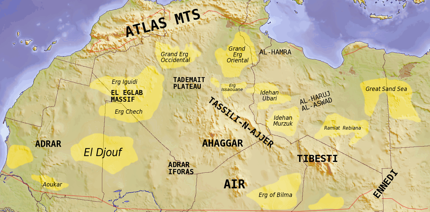 Map showing major Dune seas (ergs) and Mountain ranges of the Sahara. Red dashed line shows approximate limit of the Sahara. National borders in grey. Dune seas in yellow. Derived from Blank map Image:Africa_topography_map_with_borders.png. Data taken from image of Michlein Map and 's Sahara Desert Map.